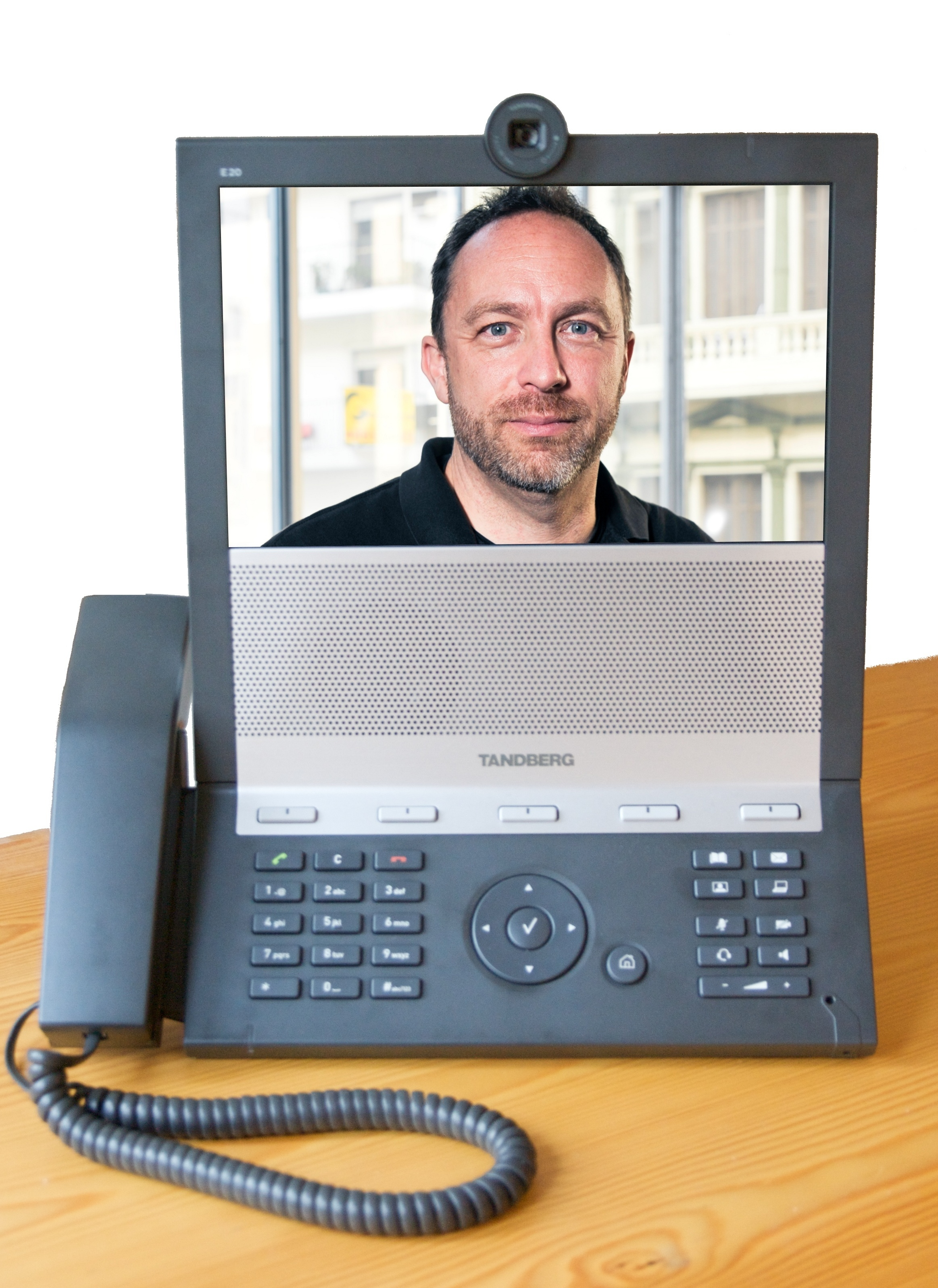 TANDBERG E20 videophone.